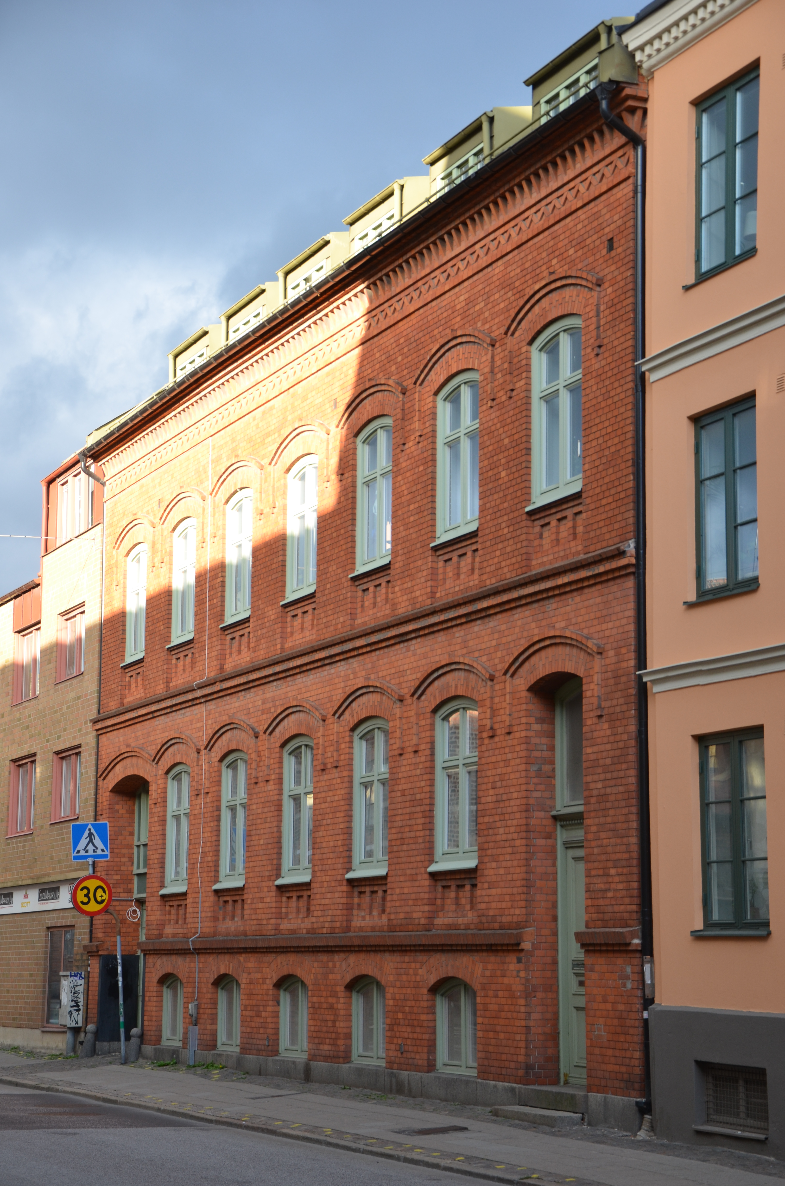 Svenska Bindgarnsfabrikens AB:s tidigare fastighet vide Stora Södergatan i Lund